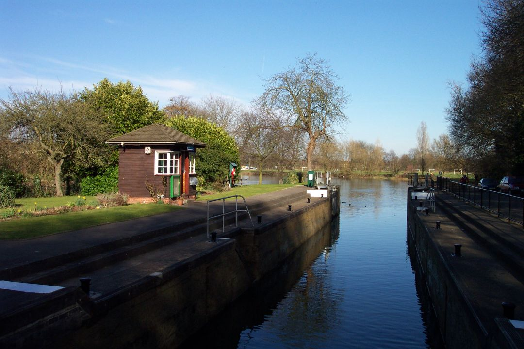 Caversham Lock, on the River Thames in the English town of Reading, looking downstream. For more information, see the Wikipedia article Caversham Lock.